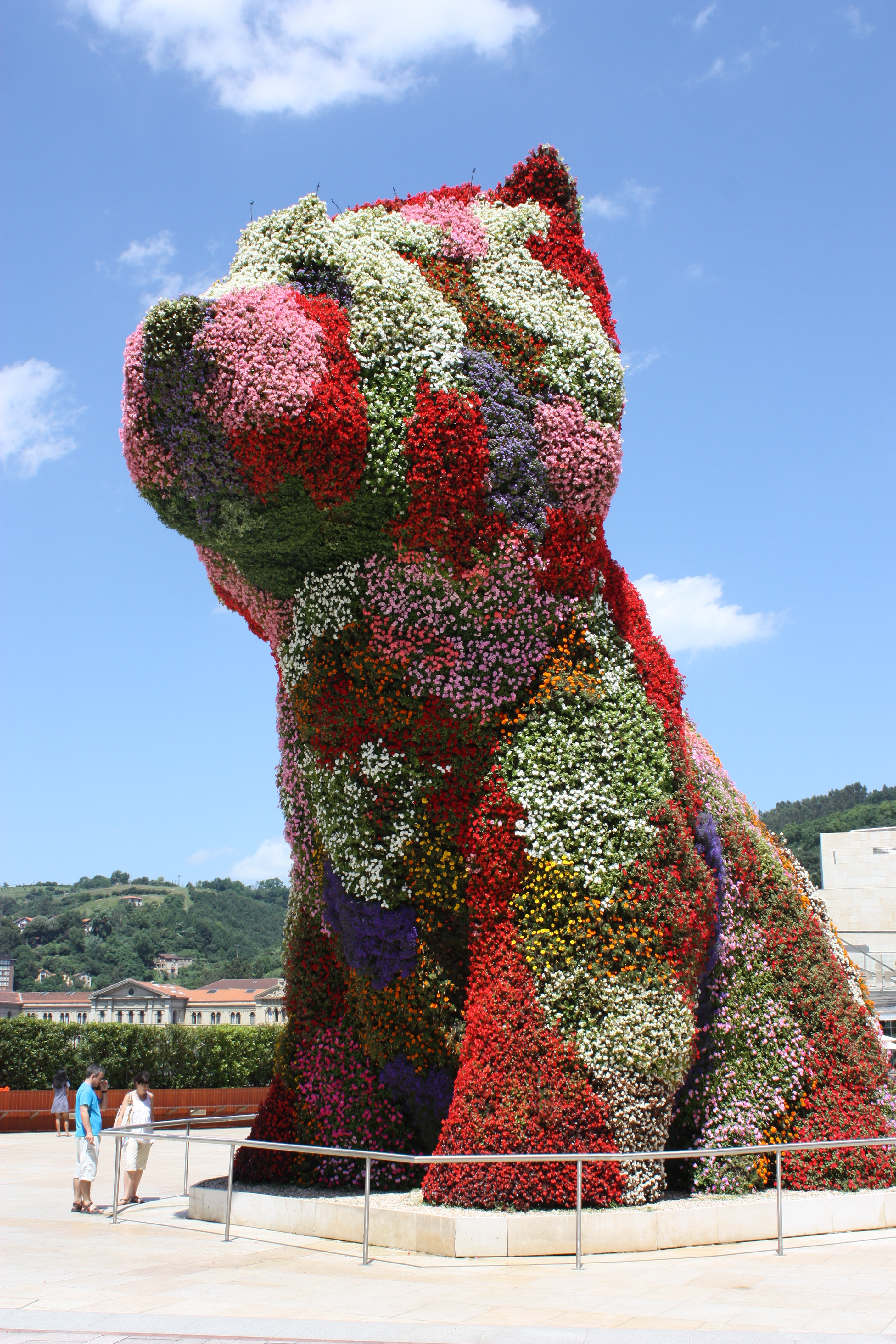 "Puppy" by Jeff Koons, Guggenheim Museum, Bilbao, Biscay, Spain, July 2010